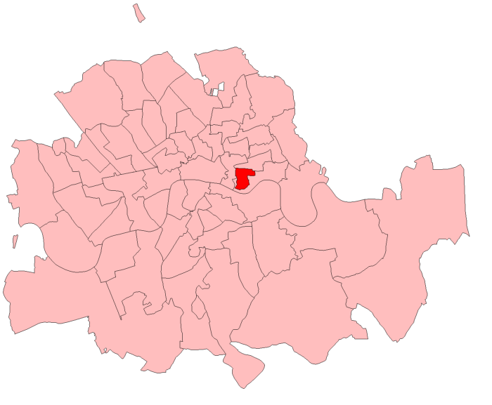 A map of St George's in the East constituency within the Metropolitan Board of Works area, as it existed from 1885 to 1918.